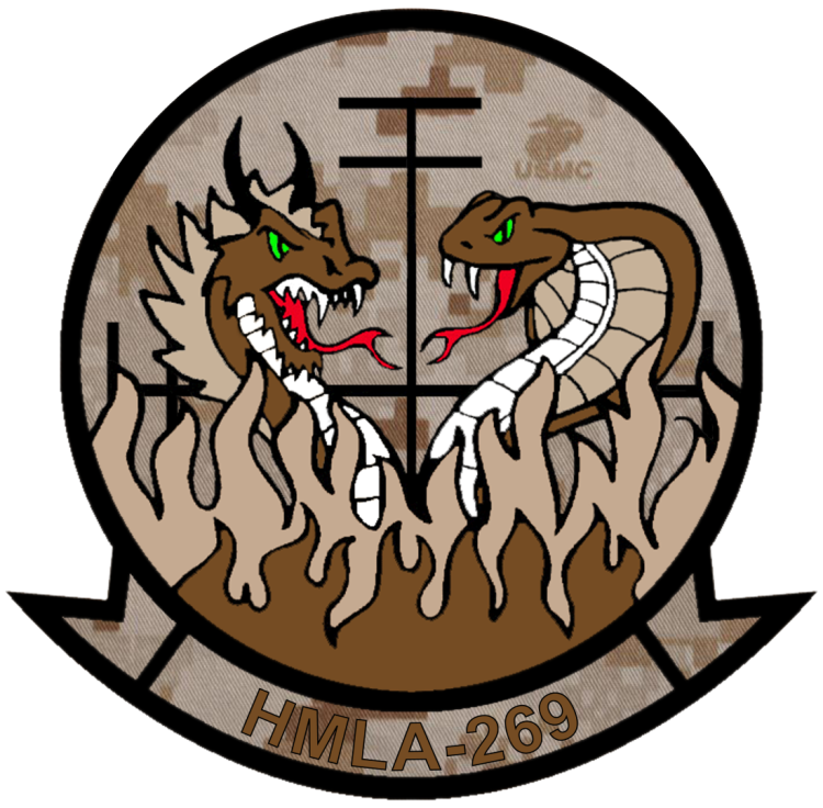 The desert version of the new patch used by HMLA-269 since 2008.